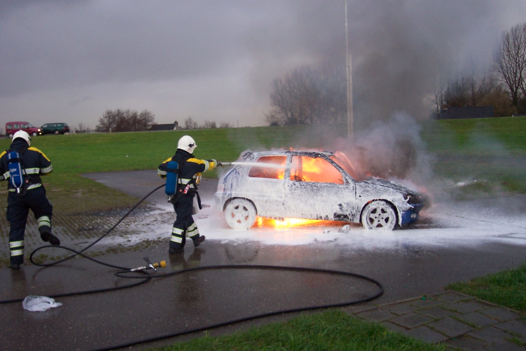 Car fire being extinguished with AFFF foam